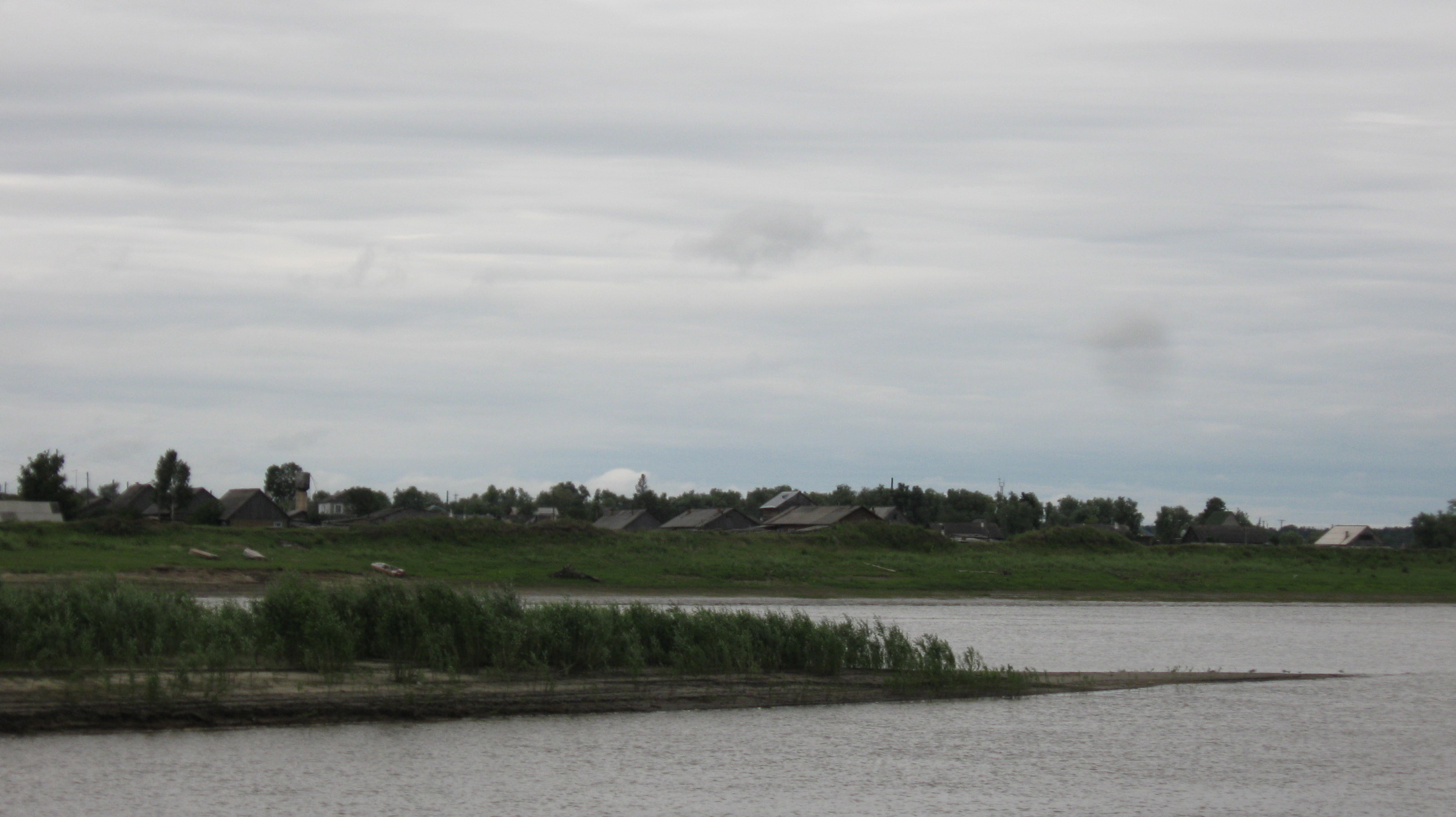 Confluence of Siberian rivers, the Ishim flows into the Irtysh (foreground) at Ust-Ishim village, Omsk region, Russia.